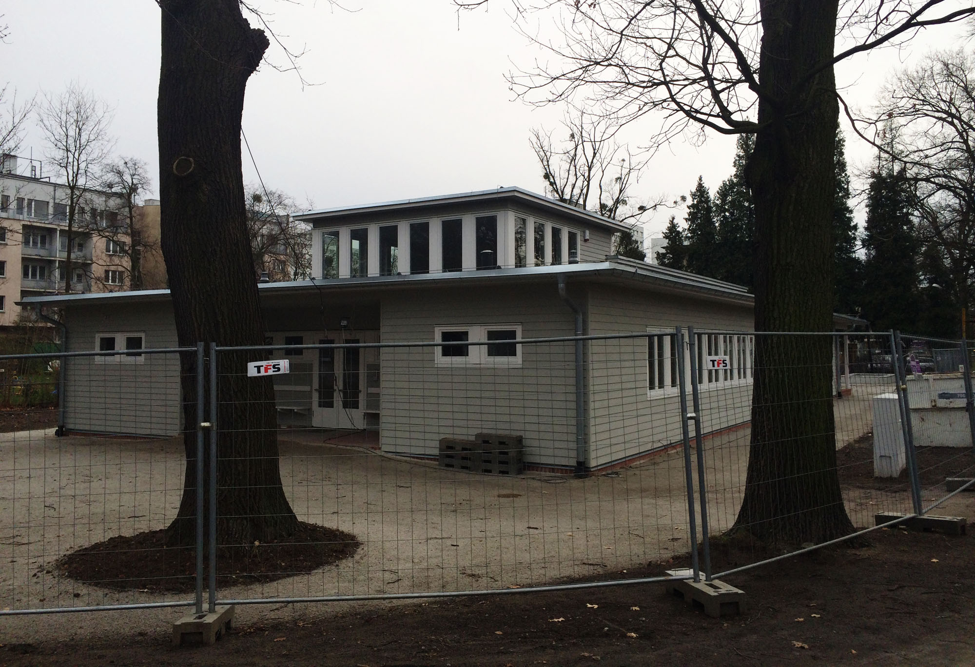 Reconstructed kindergarden of WUWA, Wroclaw in December 2013